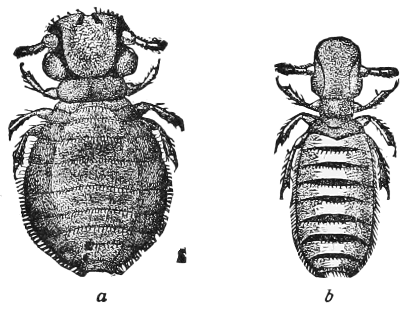 Mallophaga lice